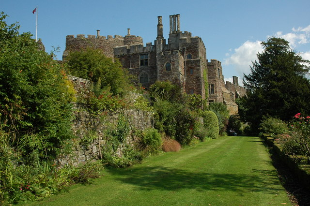 Berkeley Castle Berkeley Castle viewed from the terraced garden. In the early 14th century Edward II was held captive and murdered in the castle.